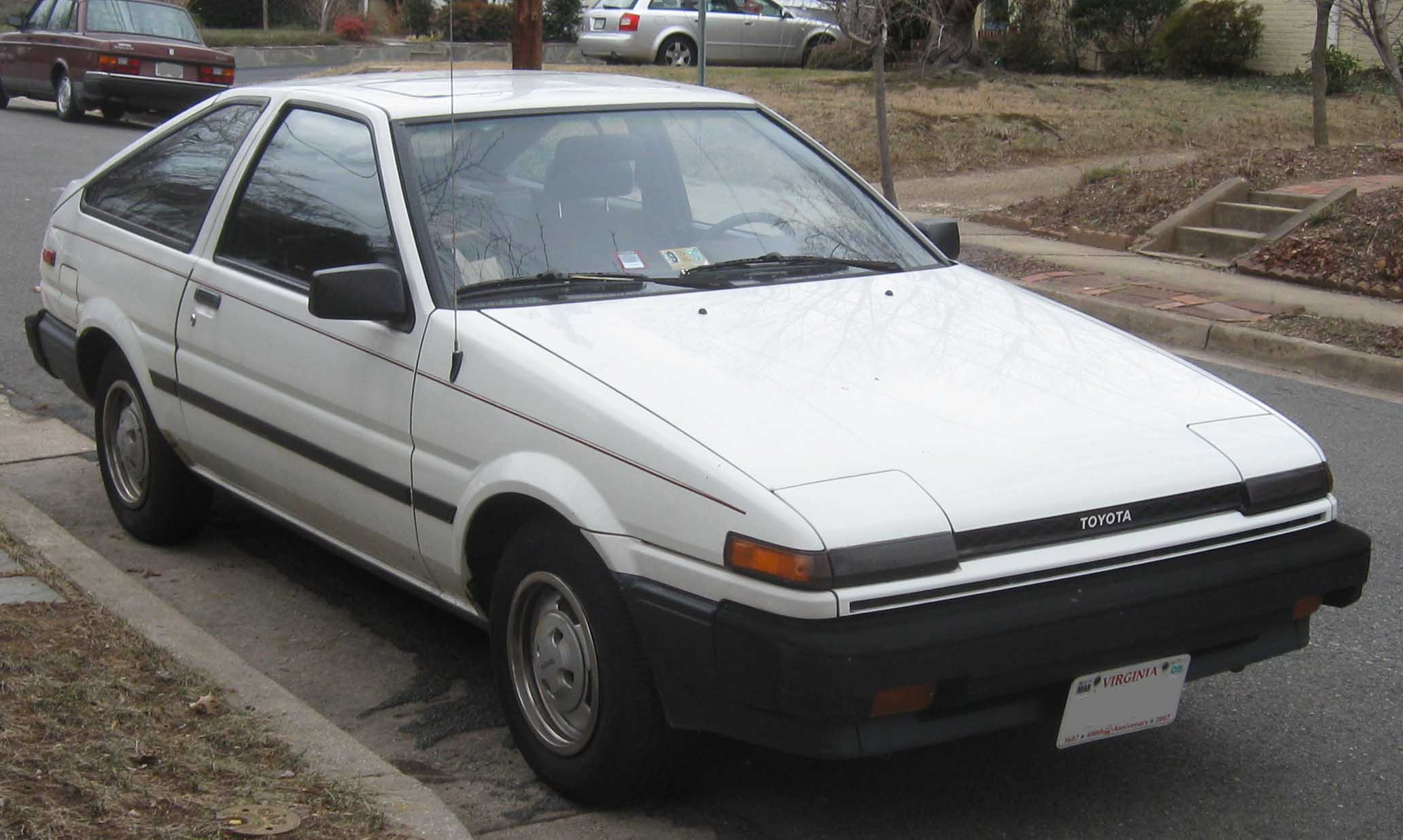 1986-1987 Toyota Corolla SR5 (AE86), photographed in Alexandria, Virginia, USA.